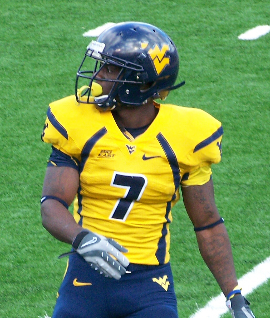 Noel Devine at Miss. State.